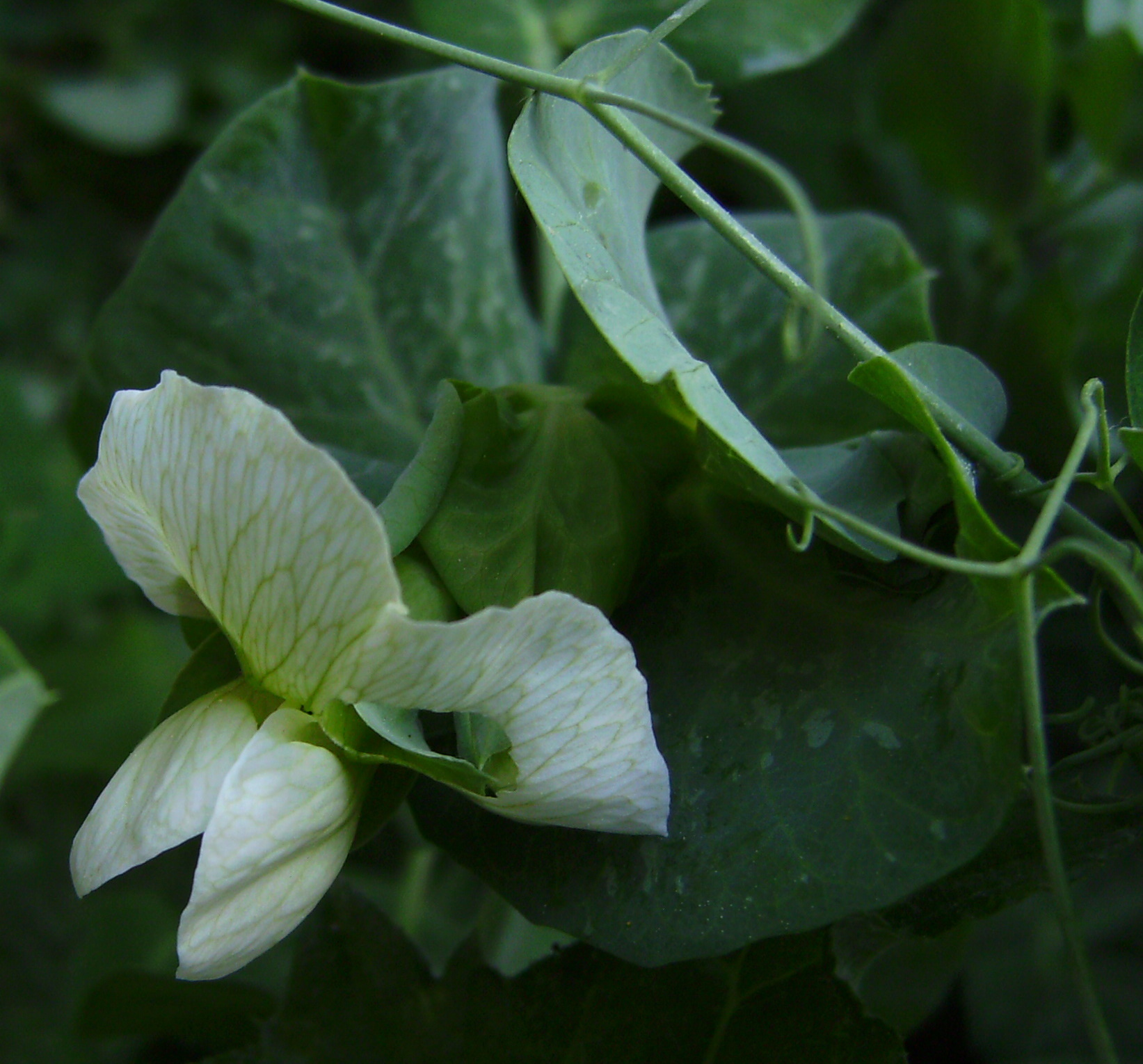 Pea, (Pisum sativum) flower, Castelltallat, Catalonia